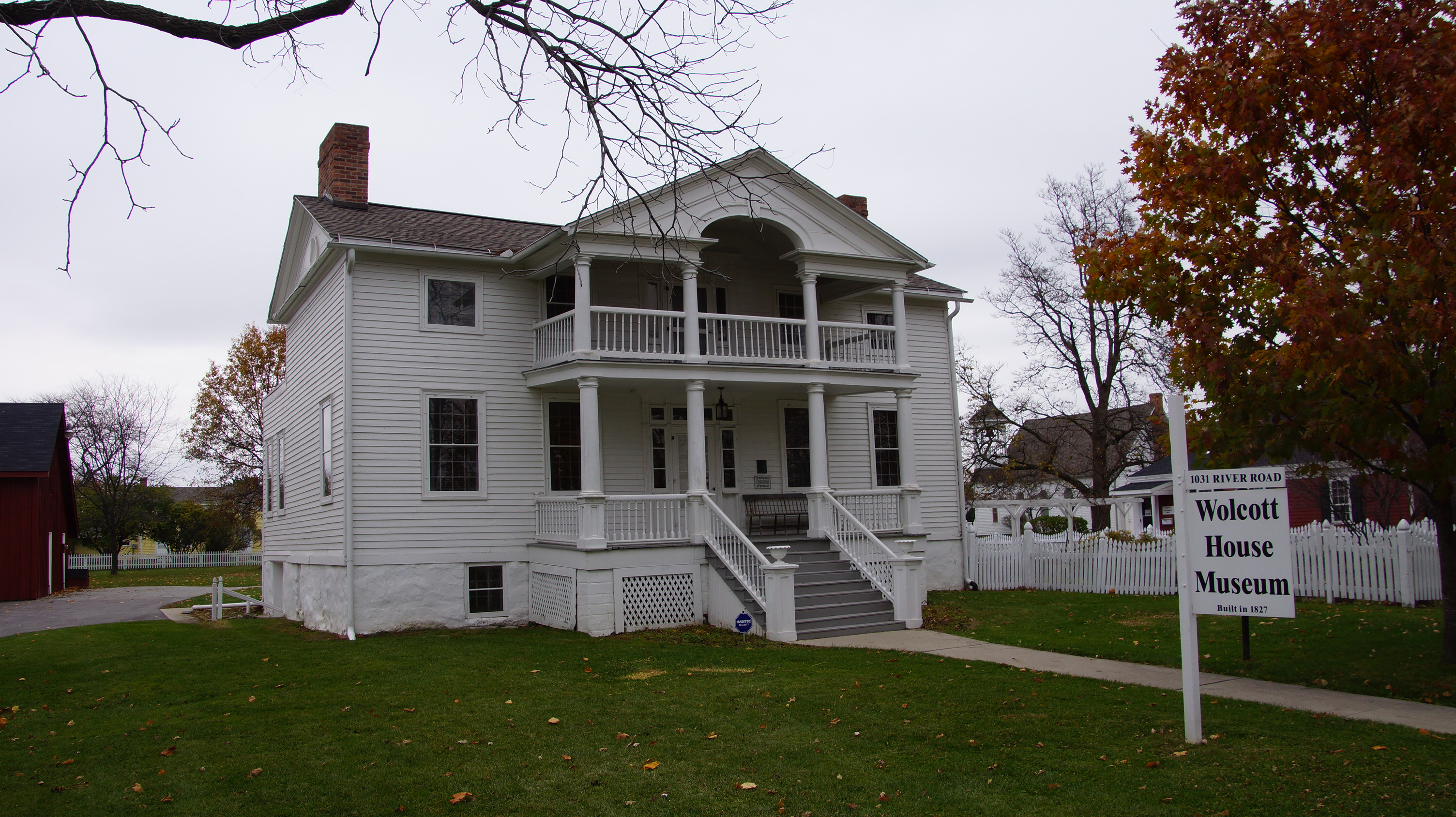 Maumee OH - Woolcott House